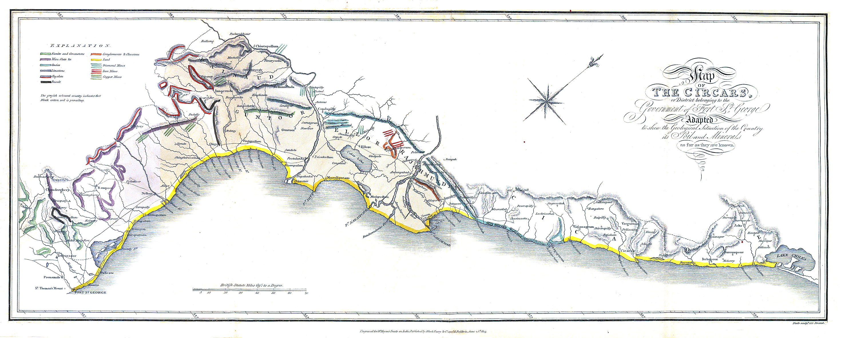 Geological map of the Circars by Benjamin Heyne. Tracts, Historical and Statistical, on India. London: C. Baltwin, 1814. 4° (275 x 230mm). Engraved frontispiece, 2 folding engraved geological maps hand-coloured in outline and 4 engraved plates of which one hand-colored. (Occasional soiling, spotting and browning, small tear to folding map.) Original boards, uncut edges (sometime rebacked in red cloth, extremities rubbed, corners bumped). Provenance: Sir Clive Milnes-Coates of Helperby (1879-1971, ownership inscription and book label).